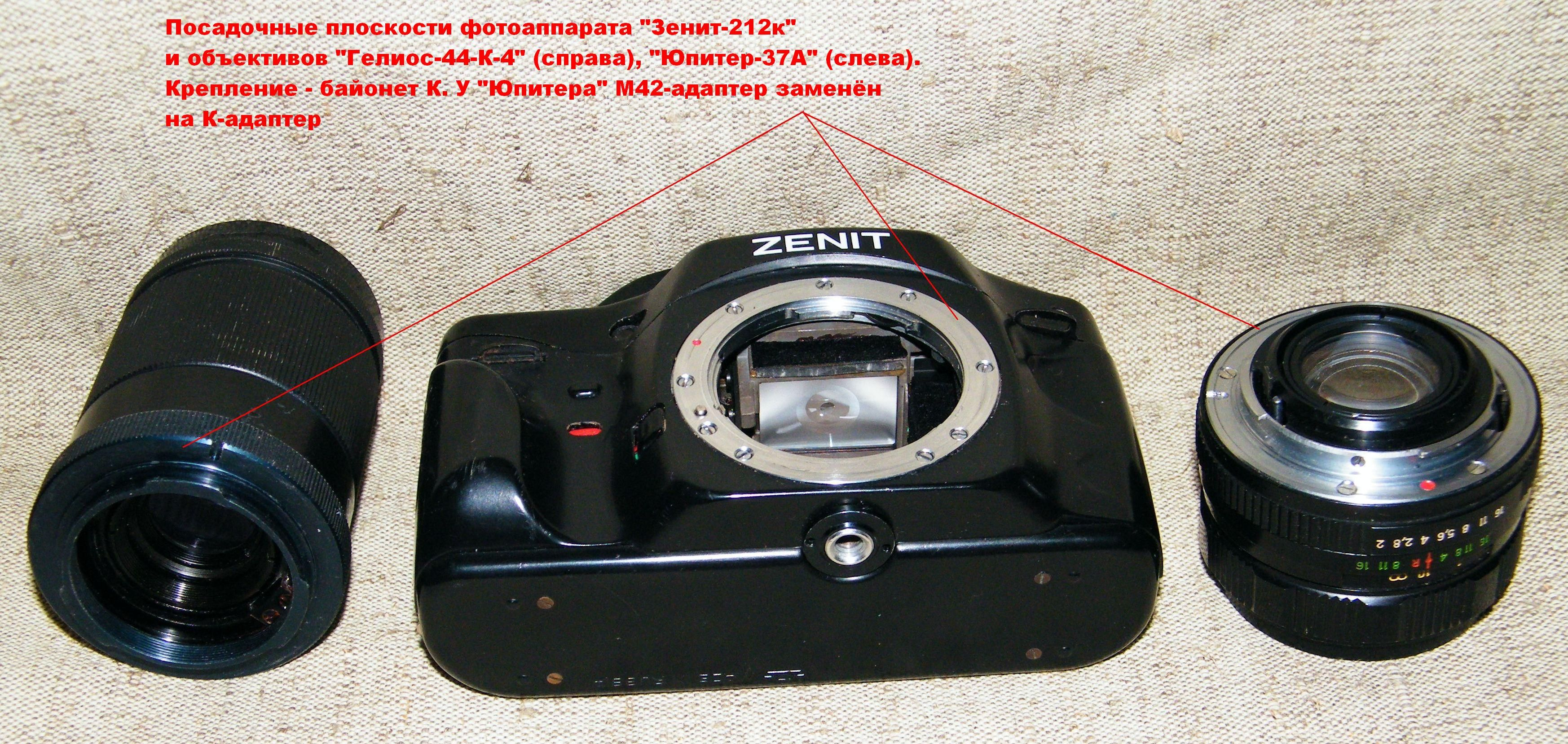 Zenit 212k